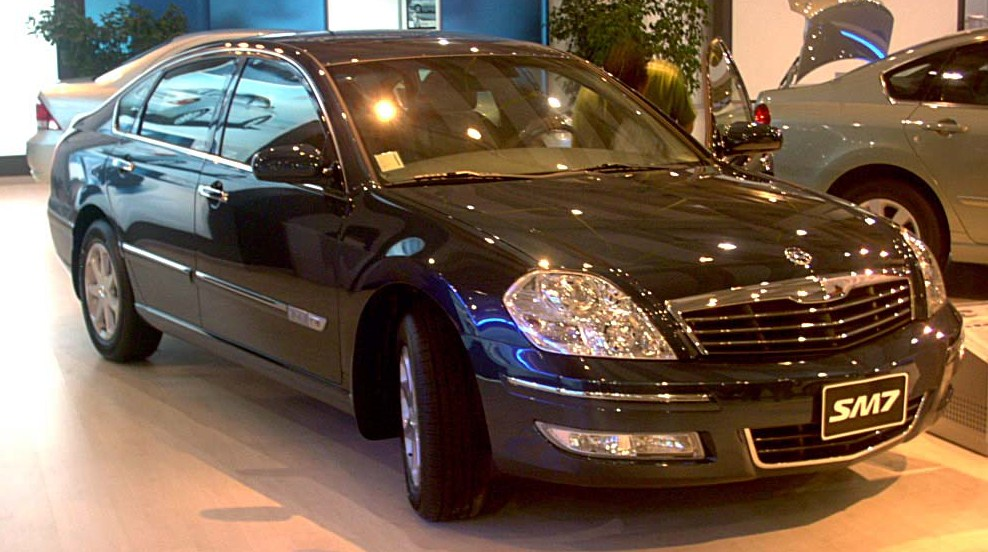 Renault Samsung SM7